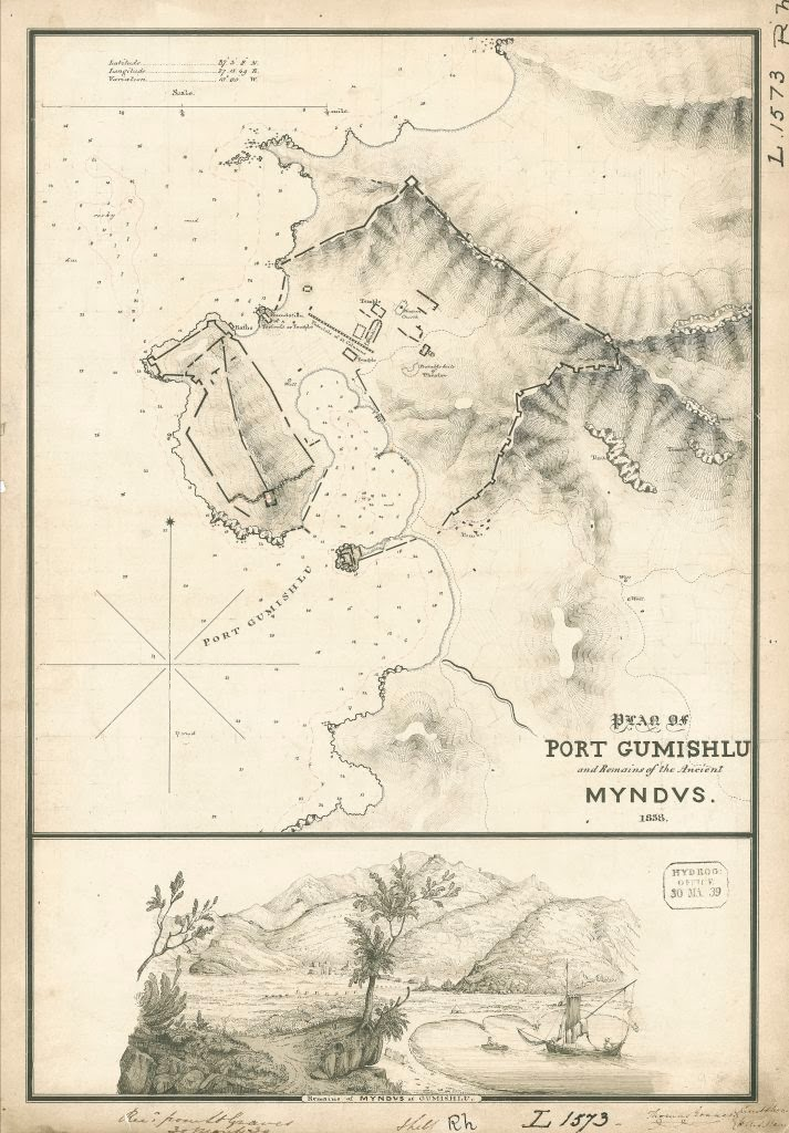 Plan of Port Gumishlu and Remains of the Ancient MYNDUS 1838